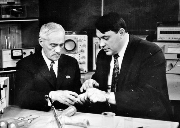 Members of the Russian Academy of Sciences